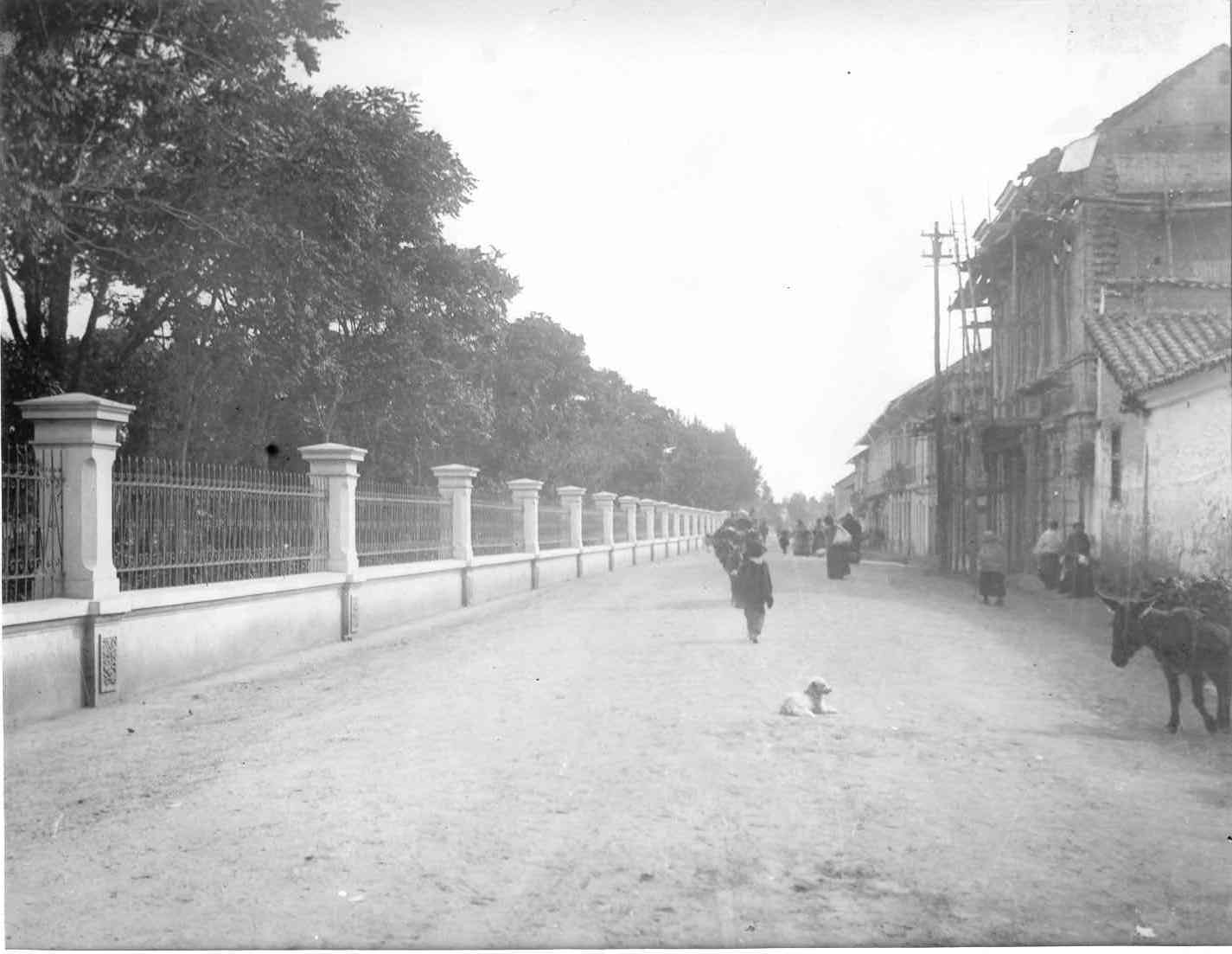 Calle Gran Colombia, Quito Ecuador South America on the left side is Parque de la Alameda in Quito & the Quito Observatory